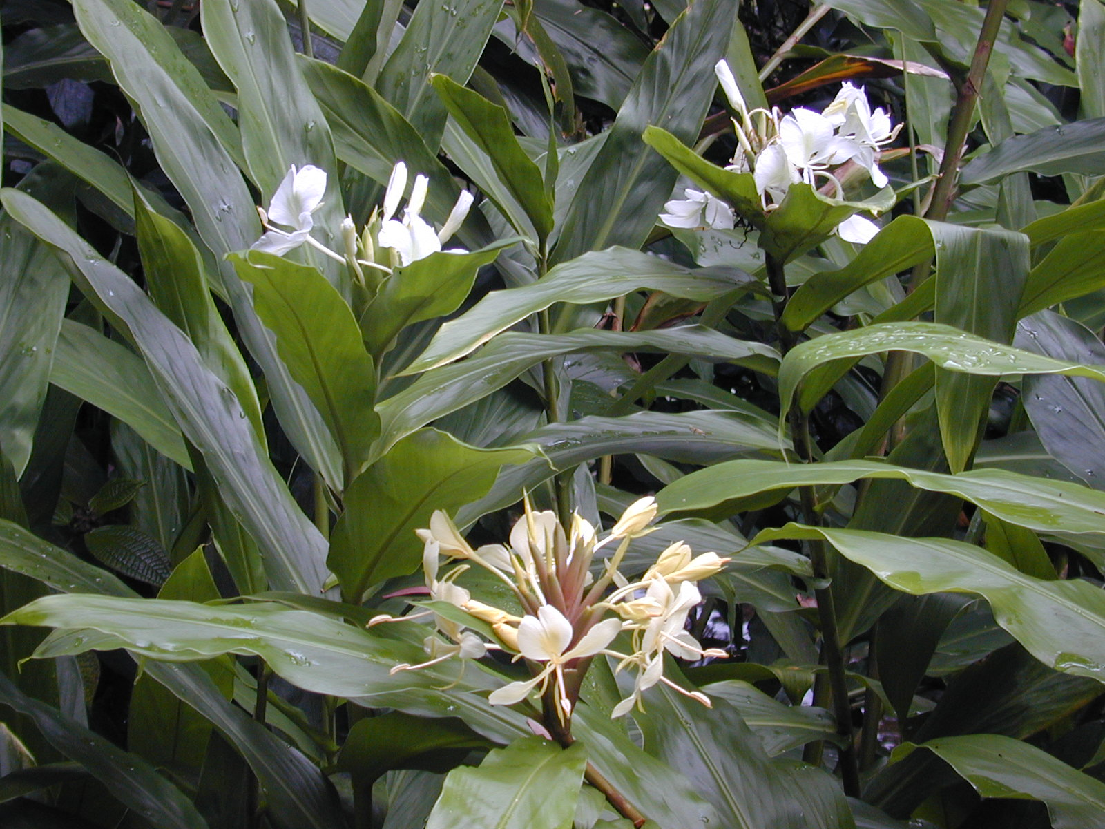 Hedychium flavescens (flowers). Location: Maui, Wahinepee